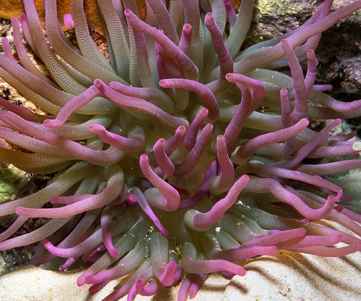 The Giant Caribbean Anemone (Condylactis gigantea) comes in a wide variety of different colors. However, this one in Bonaire (Netherland Antilles) kind of stood out from the rest! Pink is a nice color, don't ya' think? This creature is not particularly harmful, but has been known to cause minor irritation to some people. I guess we have something in common. 0)